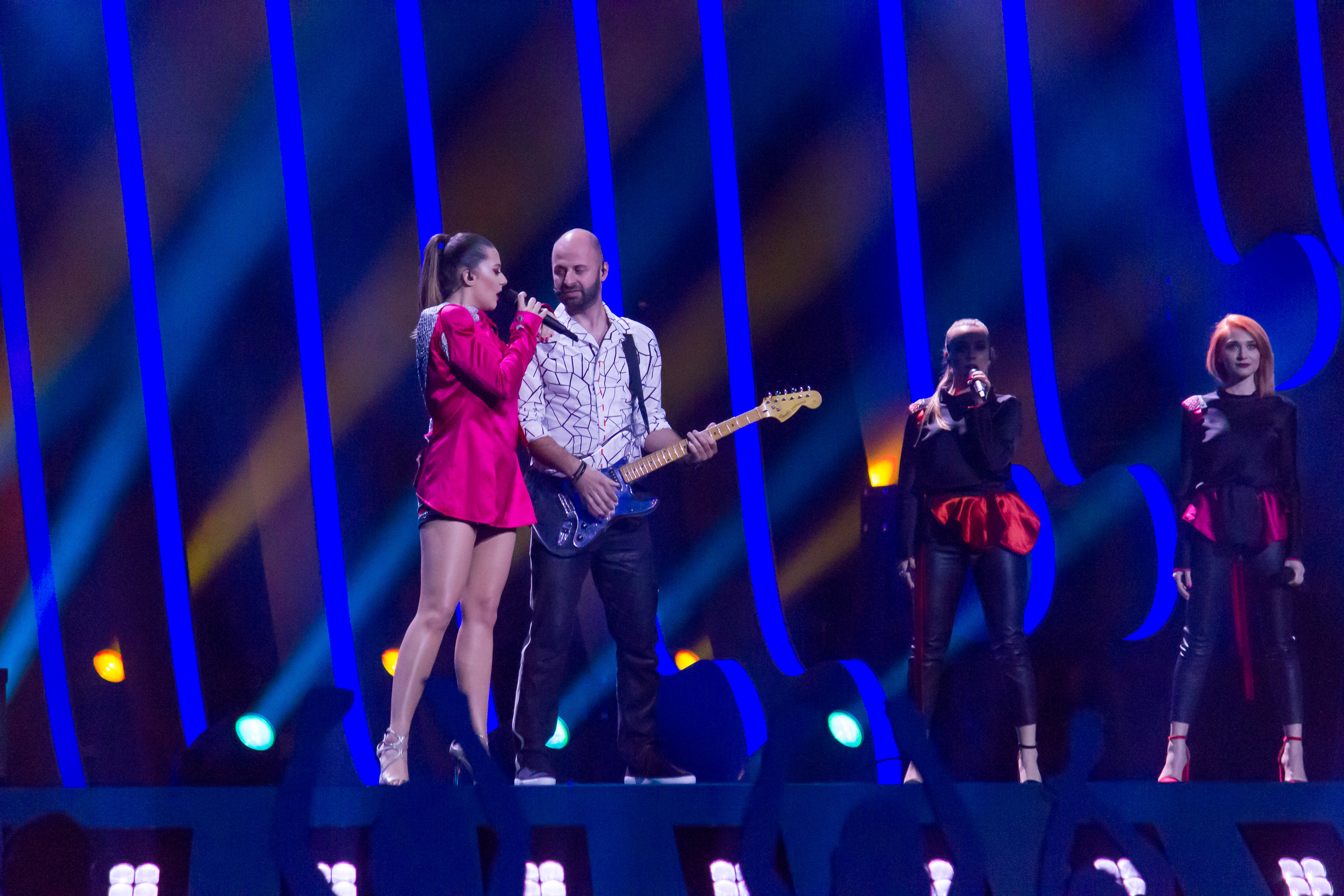 Eye Cue representing Macedonia with the song "Lost and Found" during a rehearsal before the first semi final of the Eurovision Song Contest 2018 in Lisbon.